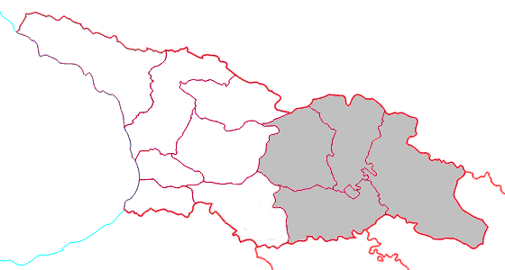 Edited the picture to outline eastern Georgia.